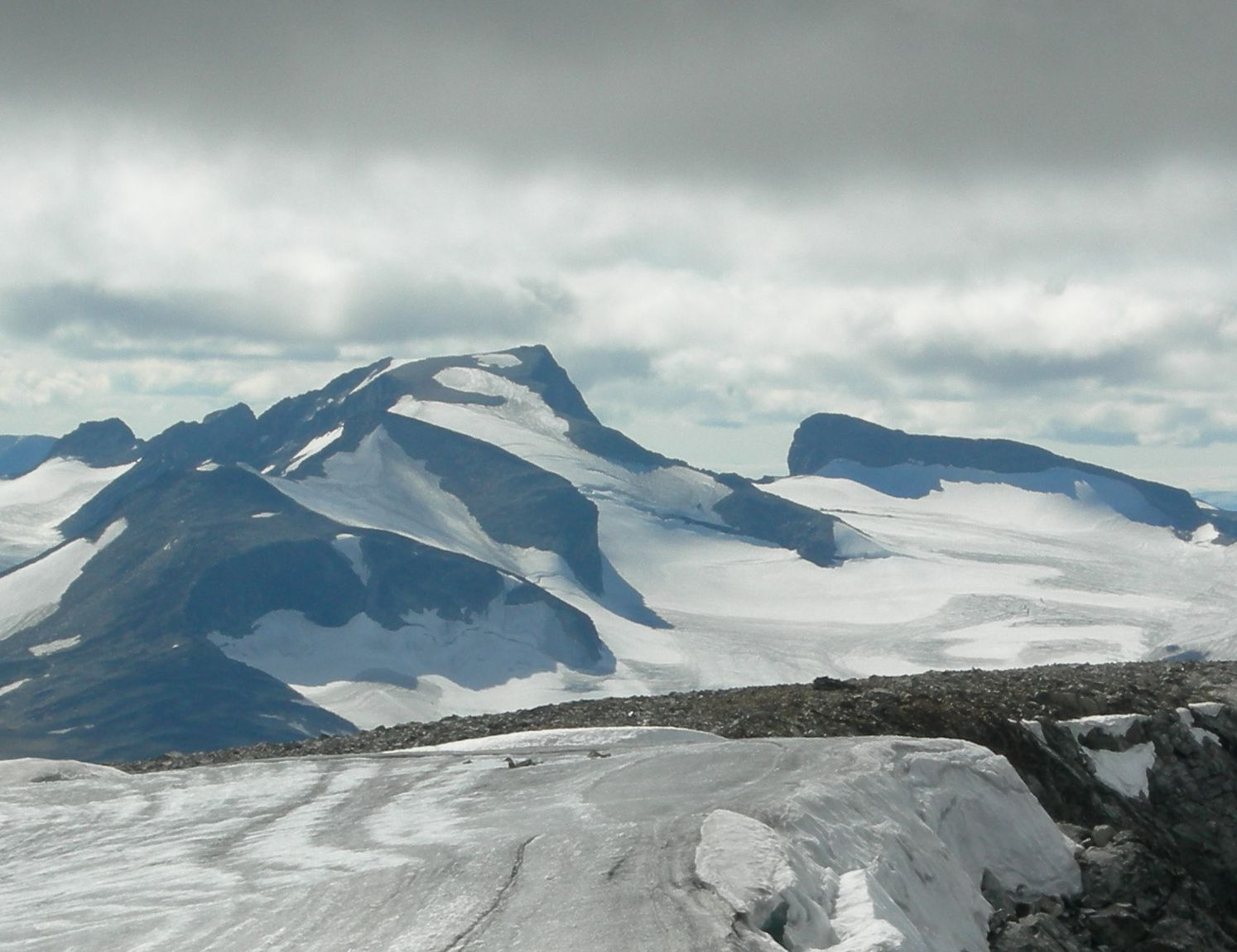 View of Galdhøpiggen from Glittertind summit